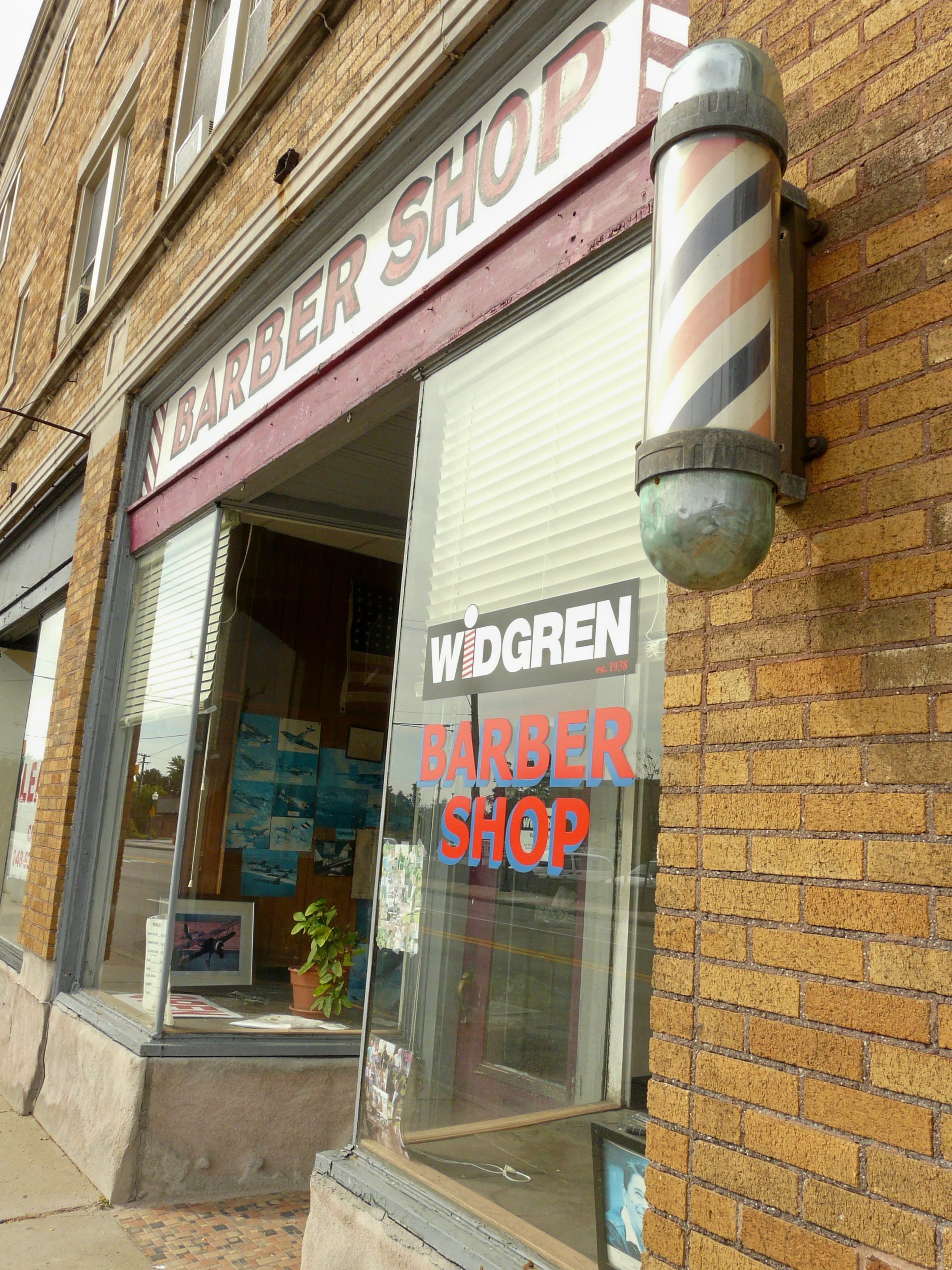 Widgren's Barber Shop, a filming location of the film Gran Torino